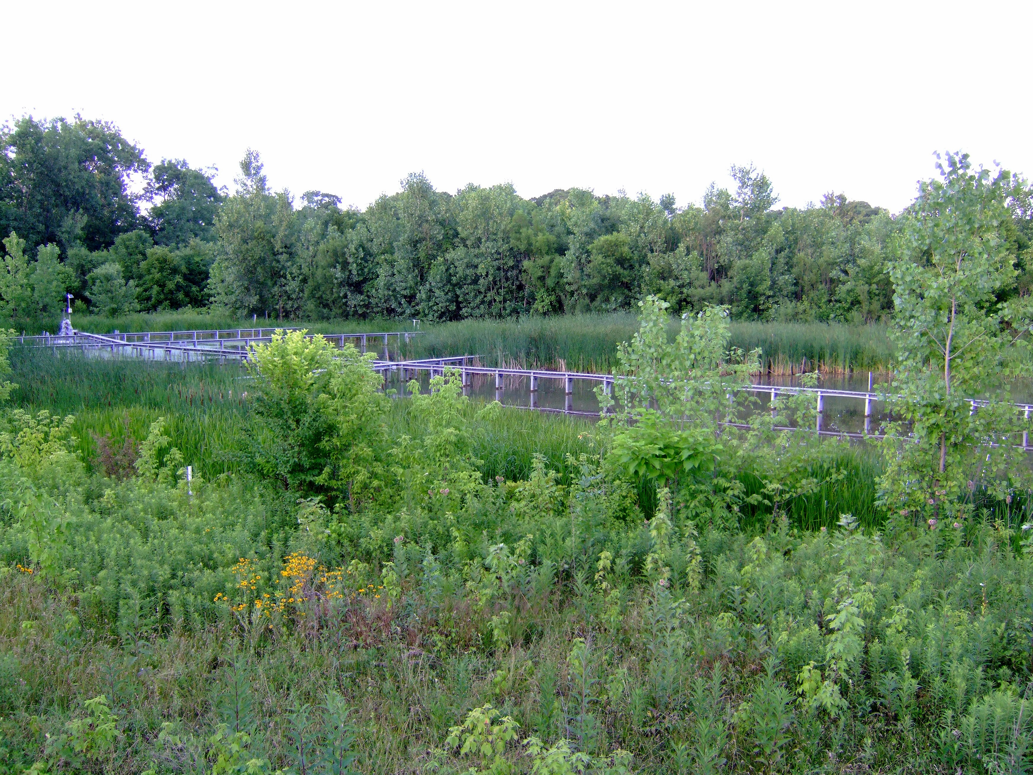 View from the overlook at the Olentangy River Wetland Research Park